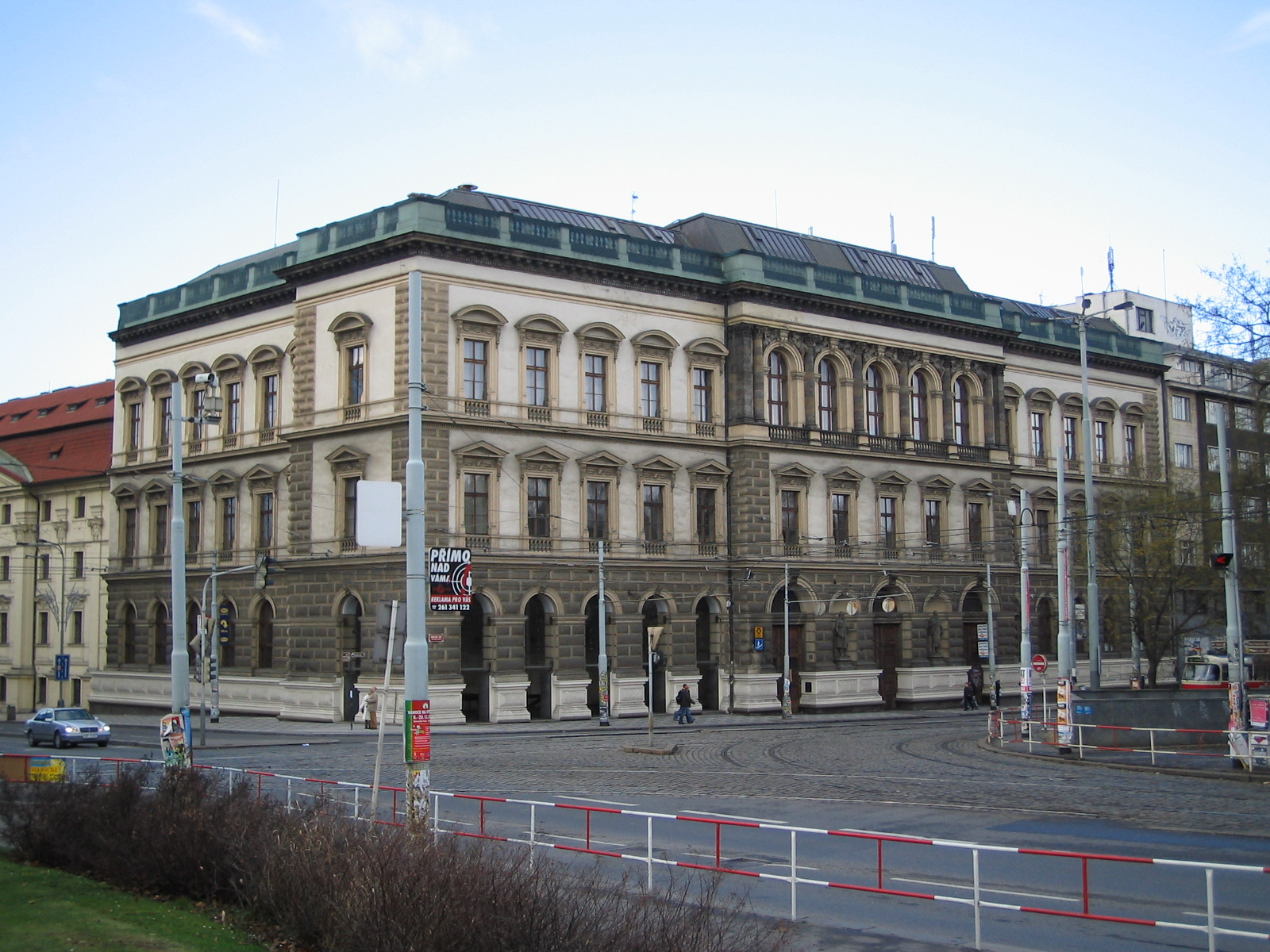 A building of the Czech Technical University in Prague, Karlovo náměstí. Architect: Ignác Vojtěch Ullmann, 1871–74